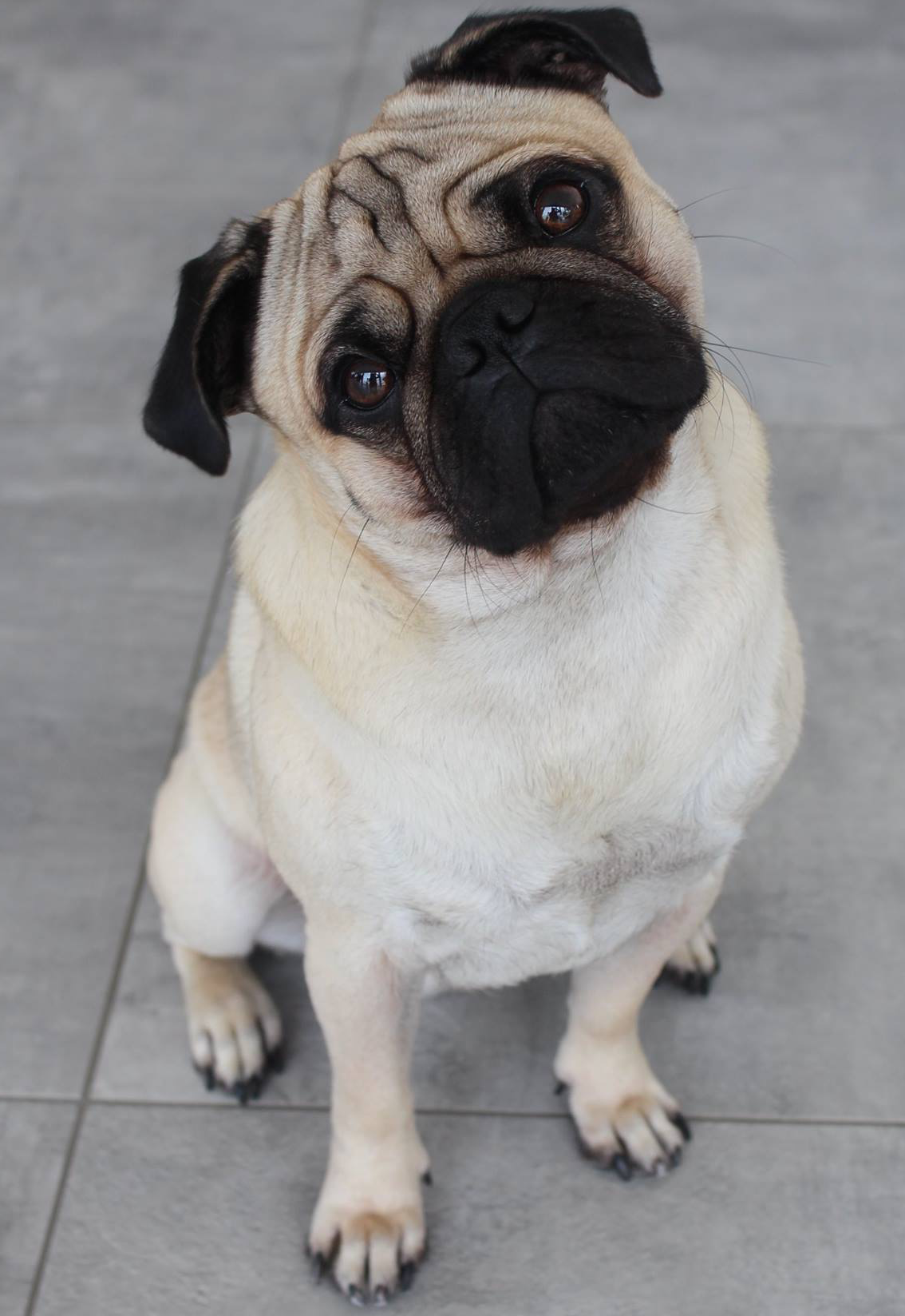 Healthy fawn pug